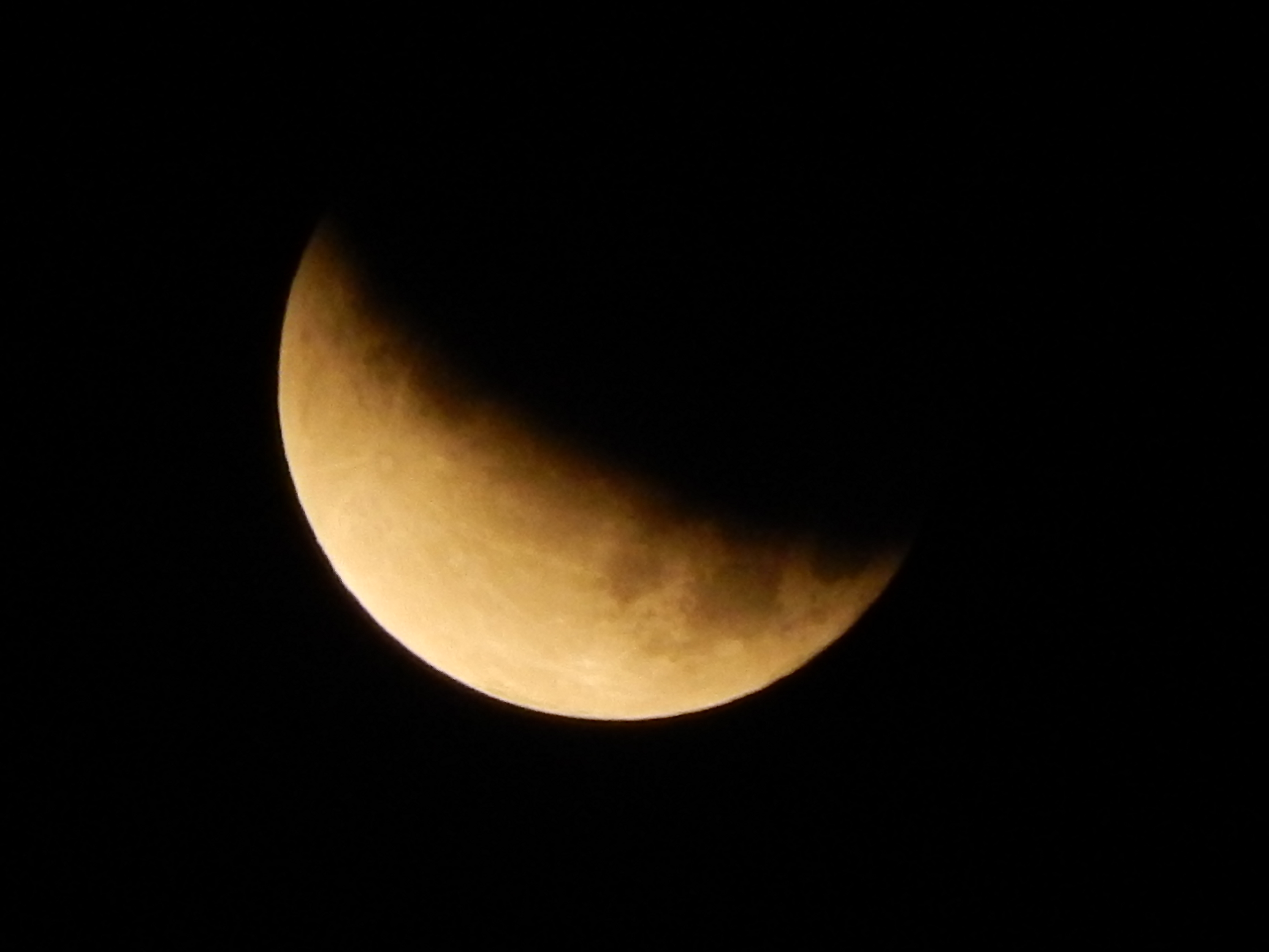 Last lunar eclipse of 2019 (16 July 2019) ... Photos taken in Odisha, India. Start: 1:23am, Finished: 4am and Duration: 2h 58m.